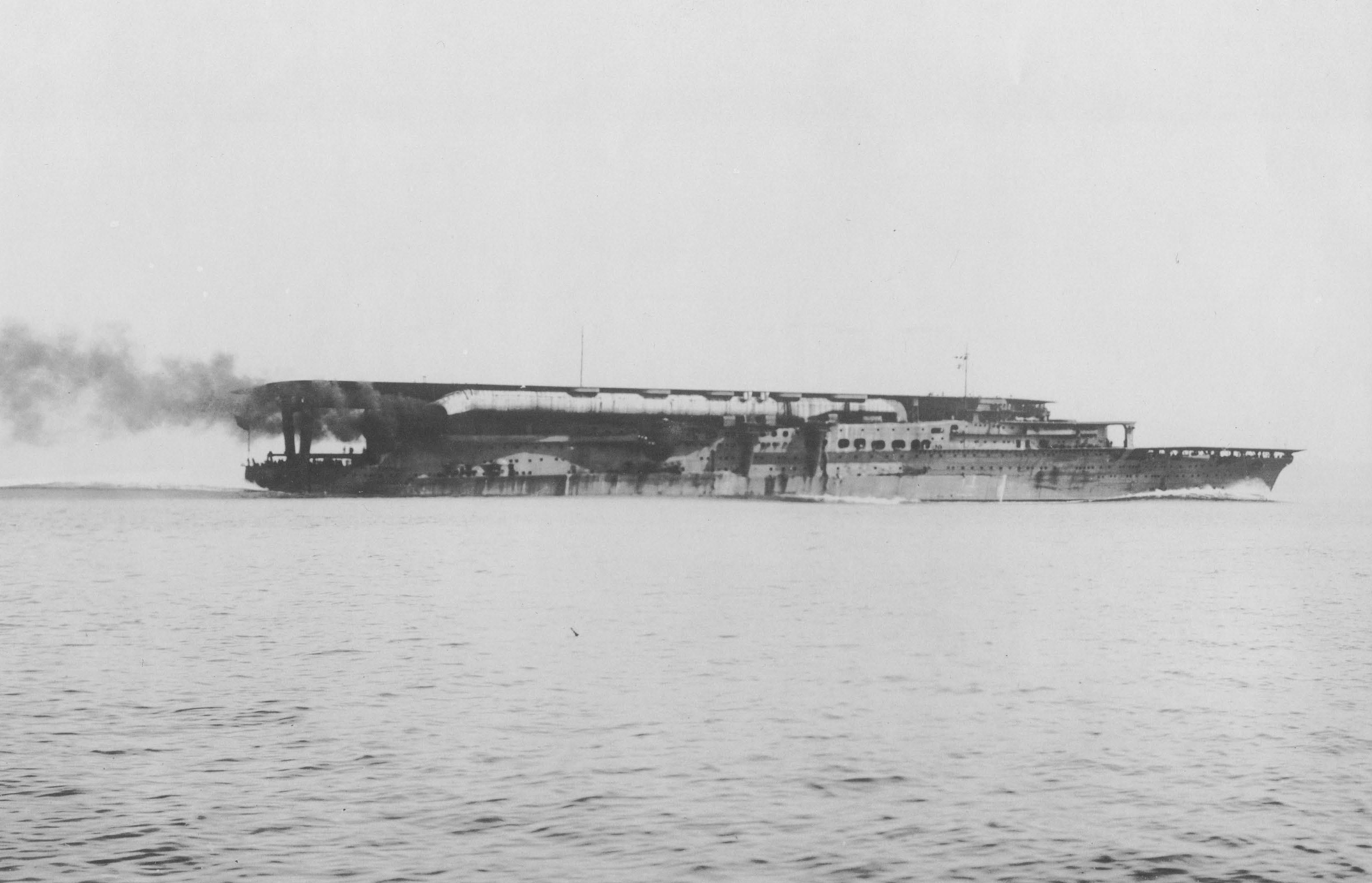 Imperial Japanese Navy aircraft carrier Kaga undergoes post-launch trials off of Tateyama, Japan.